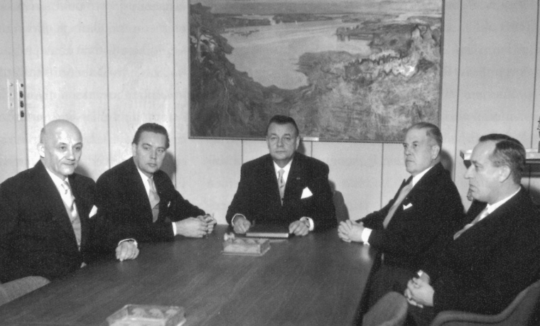 Officials of Finland’s National Building Board on 17 October 1961. From left: Paavo Tähtinen, Heikki Sysimetsä, Jussi Lappi-Seppälä, Beato Kelopuu, and Heimo Kautonen.